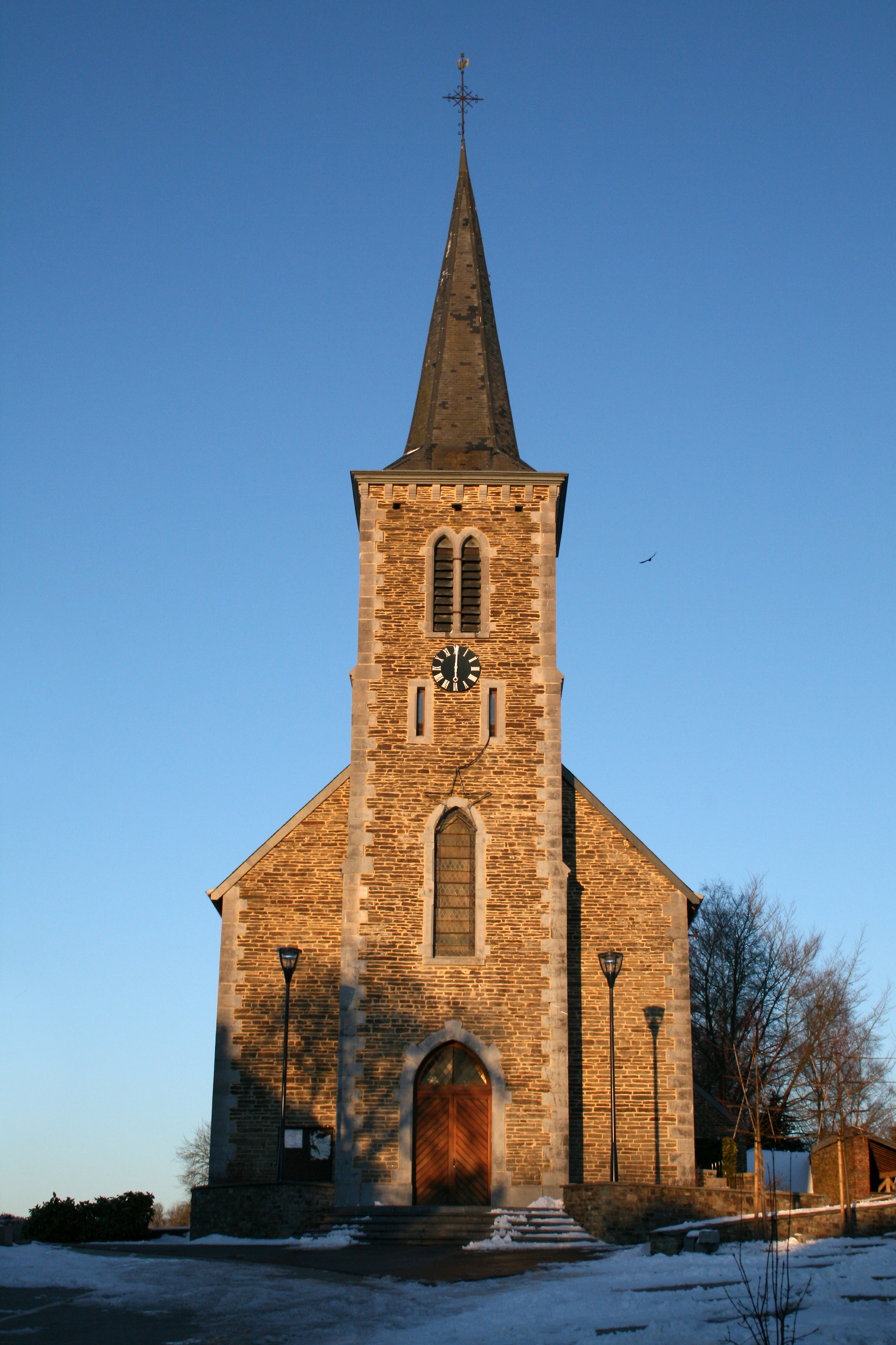 Bérismenil (Belgium), Saint Hubertus' church.